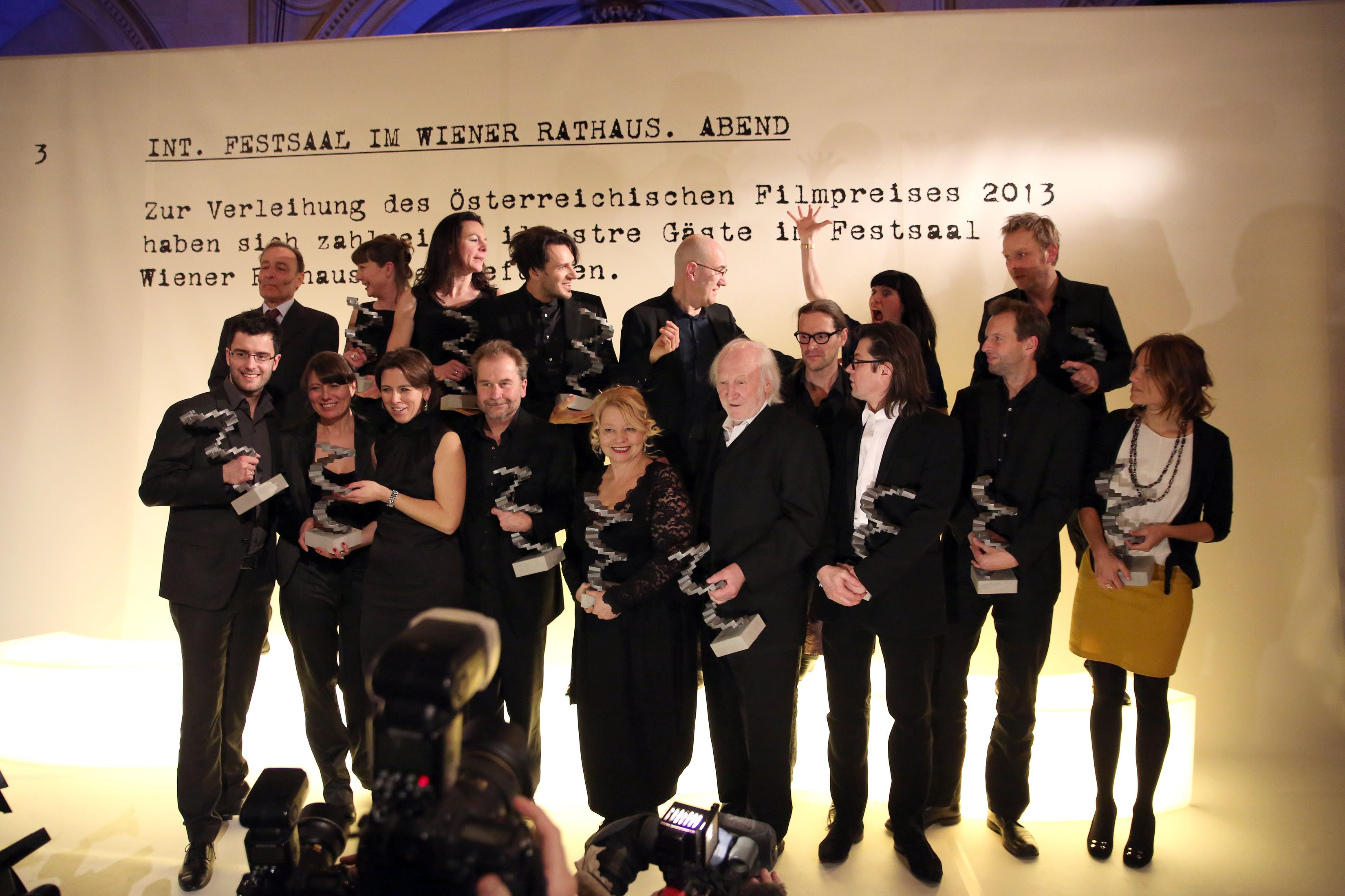 The winners of the Austrian Film Awards 2013 (Vienna).